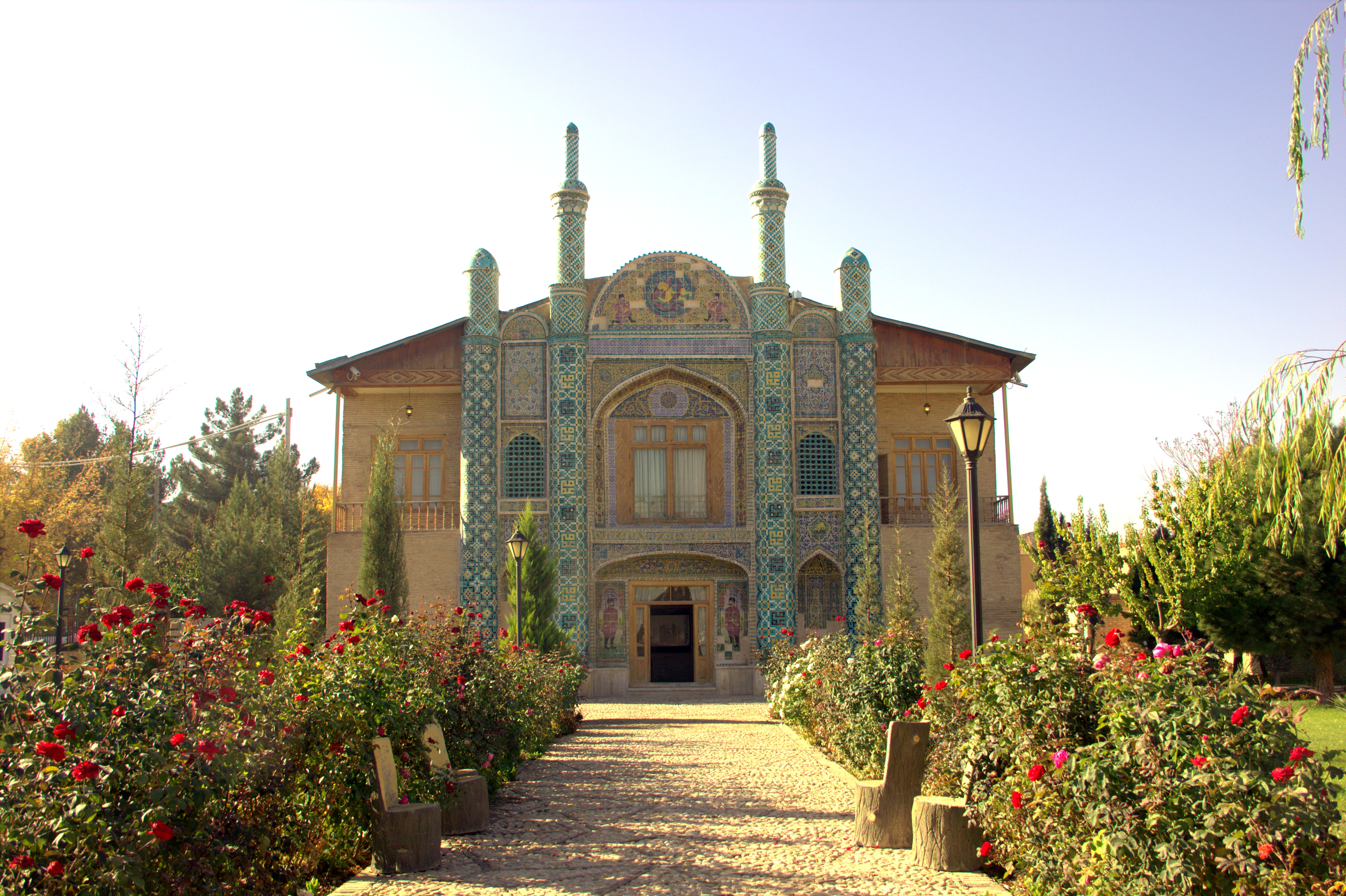 Mofakham Mirror House